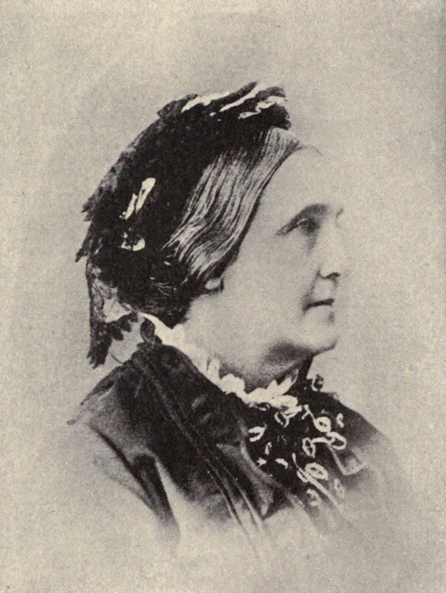 Melicent Knapp Smith (October 15, 1816 - September 24, 1891) married missionary doctor James William Smith and had eight children by him, including William Owen Smith. She established the Koloa Boarding School for Girls, in 1861, and maintained it for 10 years.